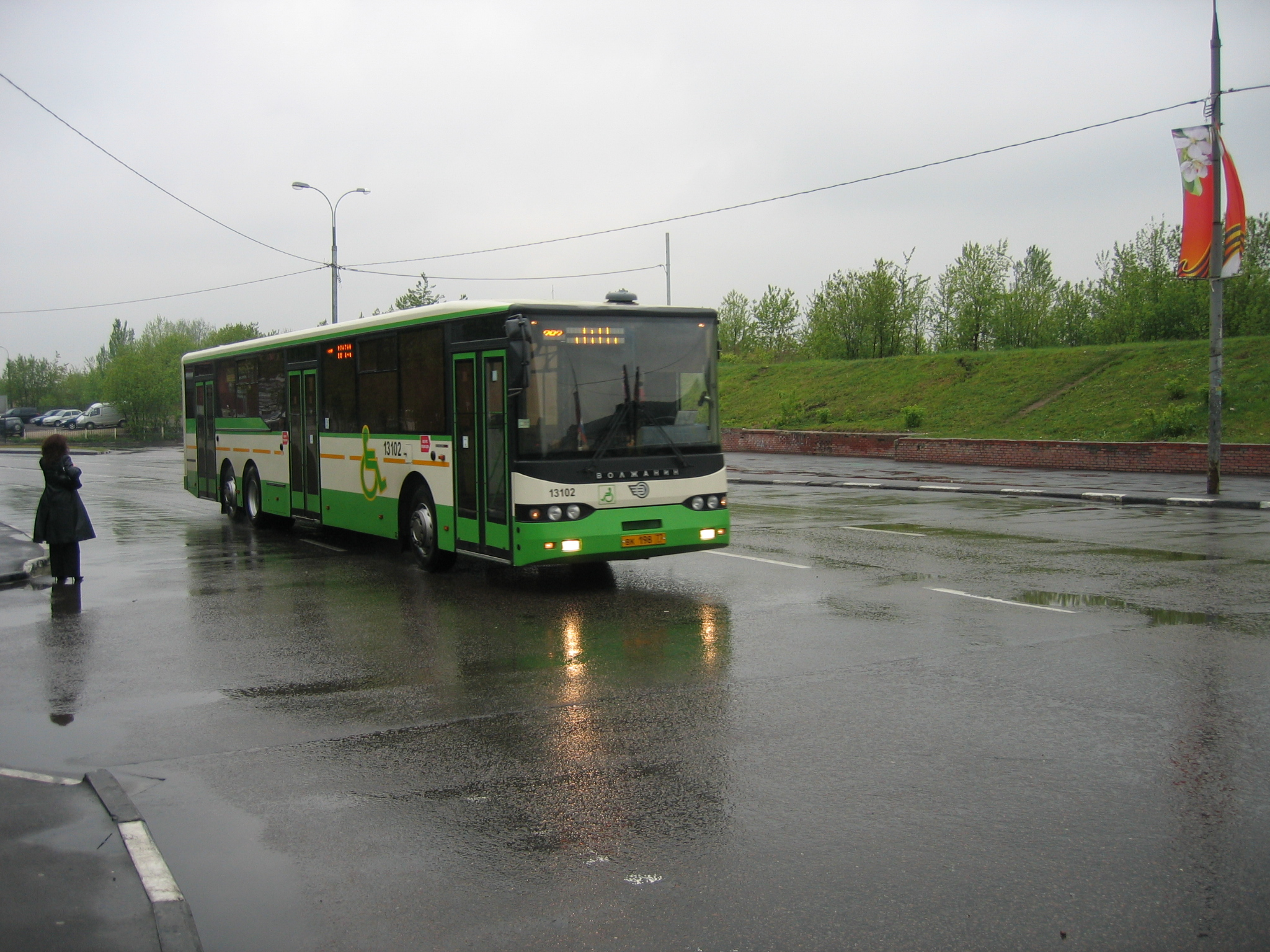 Volzhanin-6270.10 in Moscow.